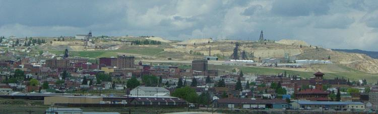 Butte, Montana